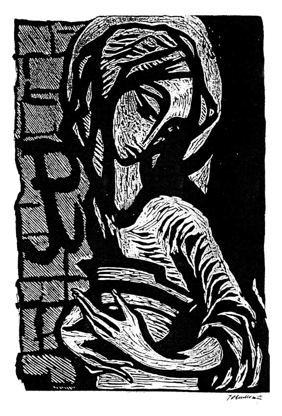 Our Lady of the Home Army